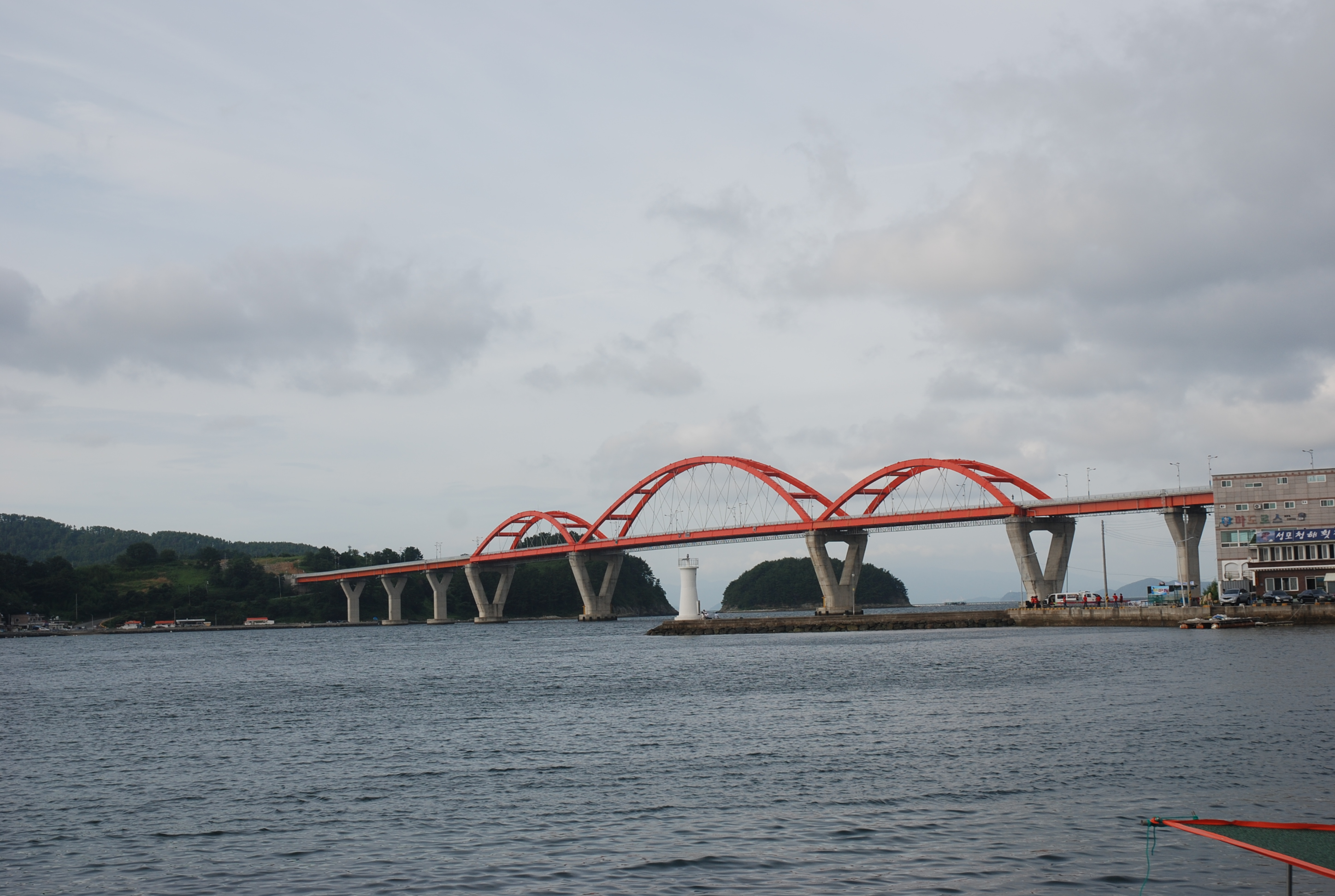 Gajo Bridge connecting Geoje Main Island and Gajo island